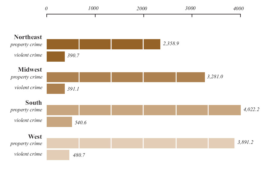 Chart indicating the overall violent and property crime rates per 100,000 inhabitants from the Uniform Crime Report.